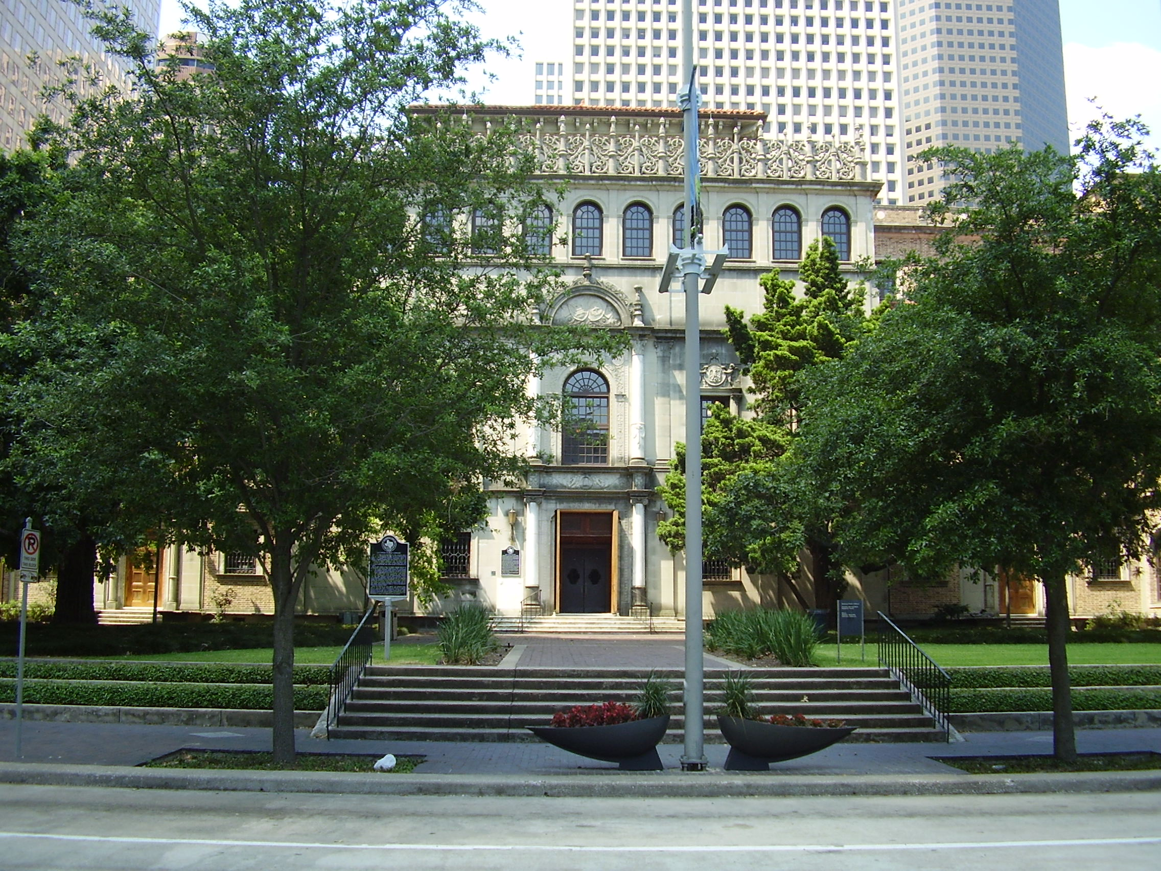 Julia Ideson Building, Houston Public Library Central Library